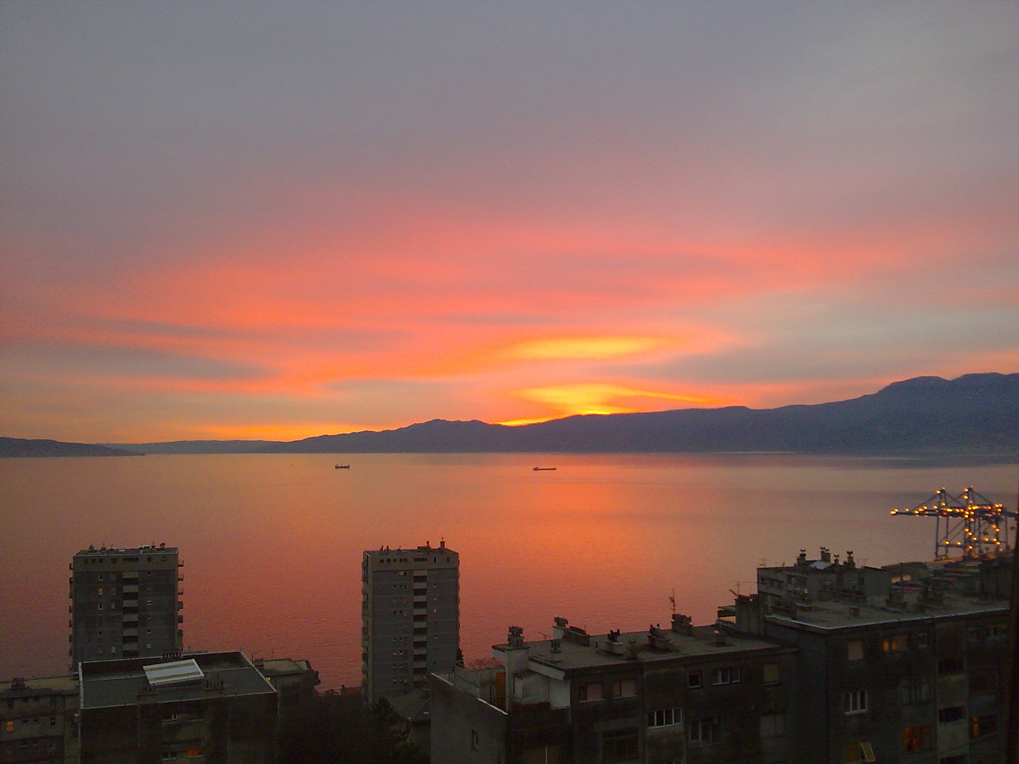 Sunset view from Krimeja westwards, Rijeka.